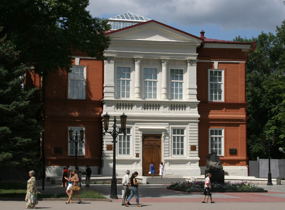 Radishchev Art Museum